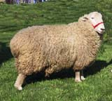 A Coopworth ram by Martha McGrath of Deer Run Sheep Farm.